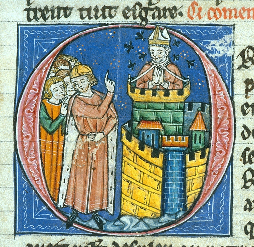 The British Museum description reads "Detail of an historiated initial 'O'(rous) of the Patriarch of Antioch being bound to a tower and smeared with honey to attract bees." Renaud of Châtillon, prince of Antioch, tortures Antioch’s patriarch, Aimery of Limoges (1156)